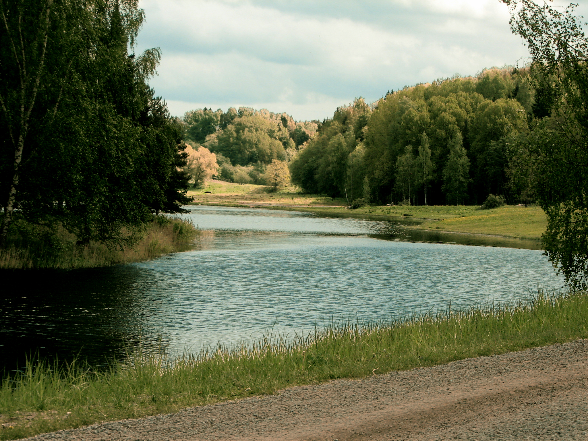 First human-made lake in Estonia- lake Karksi